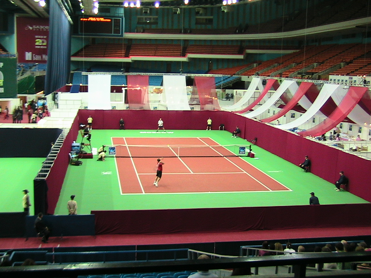 Kremlin Cup 2009. 3rd court